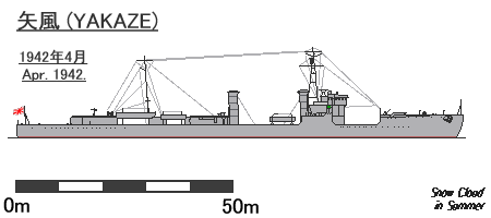 Figure of Japanese target ship Yakaze in April 1942.